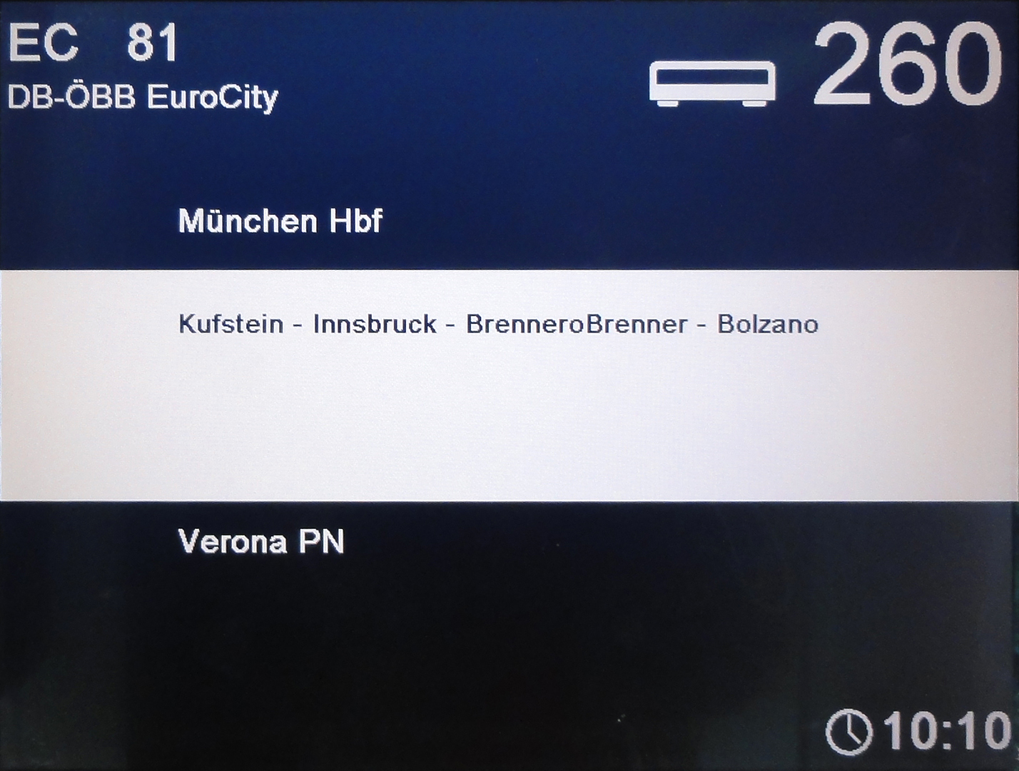 DB-ÖBB EuroCity 81 - LCD display of scheduled stations (München Hbf Kufstein Innsbruck BrenneroBrenner Bolzano Verona PN(Verona Porta Nuova train station) Info EXIF data regarding date and time may be inaccurate.